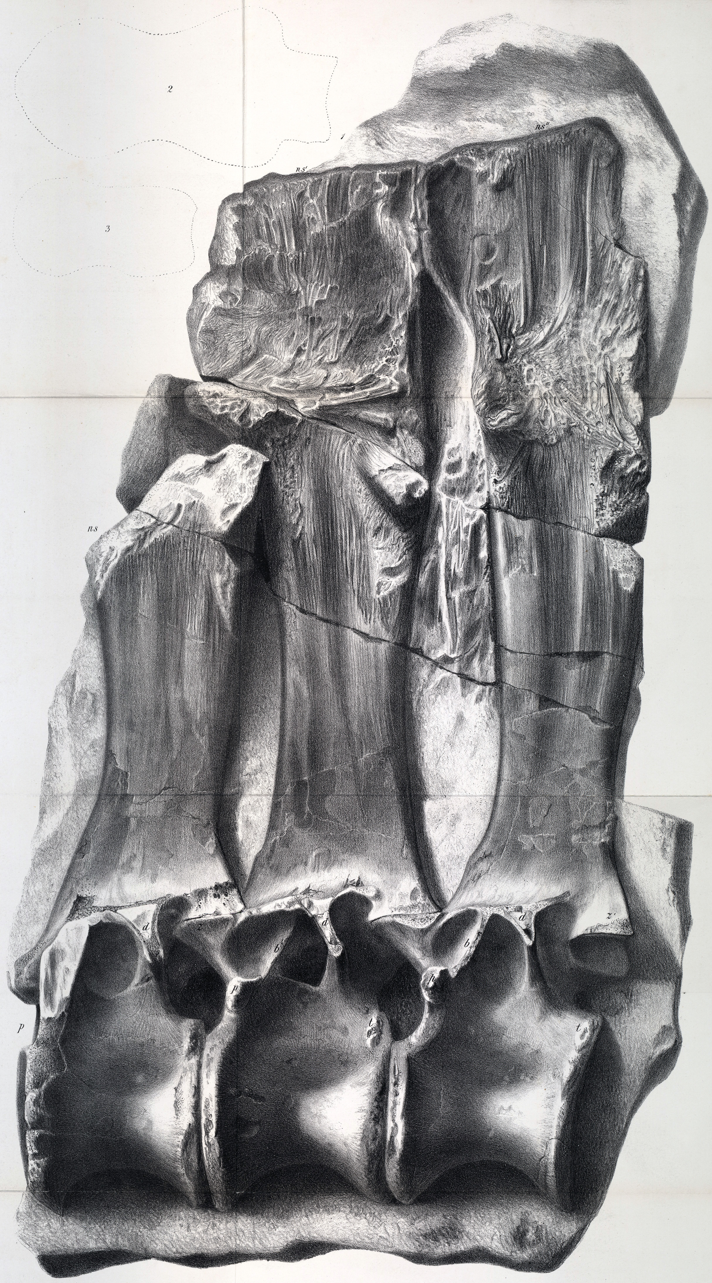 Becklespinax altispinax holotype BMNH R1828 (originally assigned to Megalosaurus bucklandii). Owen's description follows: Three anterior dorsal vertebræ : p, parapophysis, or lower transverse process: t, accessory tubercle contributing some attachment to the head of the rib : d, diapophyses, or upper transverse process, fractured, which gave attachment to the tubercle of the rib: b, oblique buttress extending from the parapophysis to the diapophysis, and contributing to the support of the neural platform : z, the prozygapophysis, z', the zygapophysis, forming the ends of the neural platform and articulating the neural arches of the vertebræ with each other, ns, the neural spine of the foremost of these vertebras, ns', the neural spine of the second vertebra; it expands at its extremity, overhangs the anterior shorter spine, and developes a strong bony plate from its back part which fixes it to n", the similarly developed and modified spine of the third vertebra. The extraordinary size and strength of the spines of these anterior dorsal vertebræ, indicate the great force with which the head and jaws of the Megalosaurus must have been used. From the Wealden, near Battle. In the Museum of Samuel H. Beckles, Esq., F.G.S.